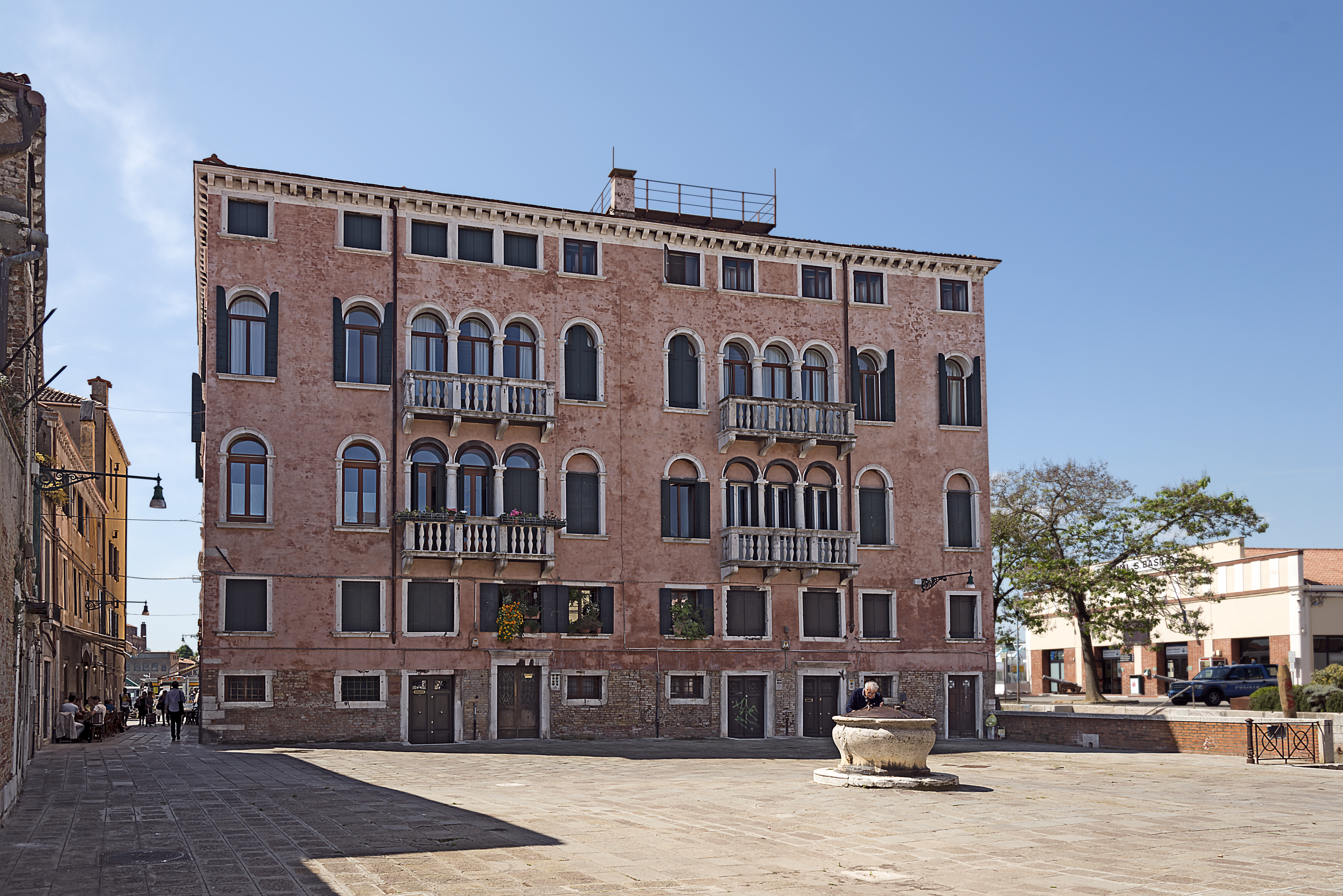 Palazzo Molin a San Basegio Venice. View from Campo San Basegio.